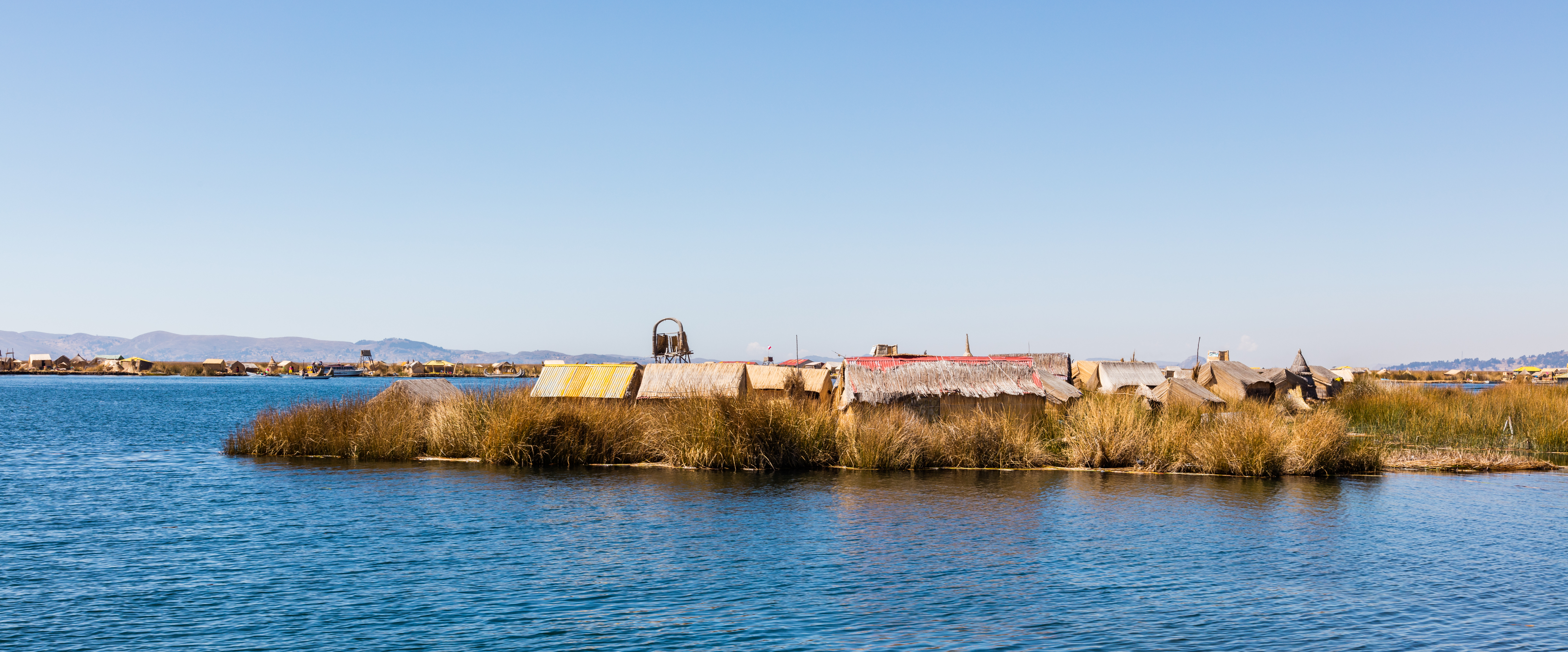 Uros floating islands, Titicaca Lake, Peru